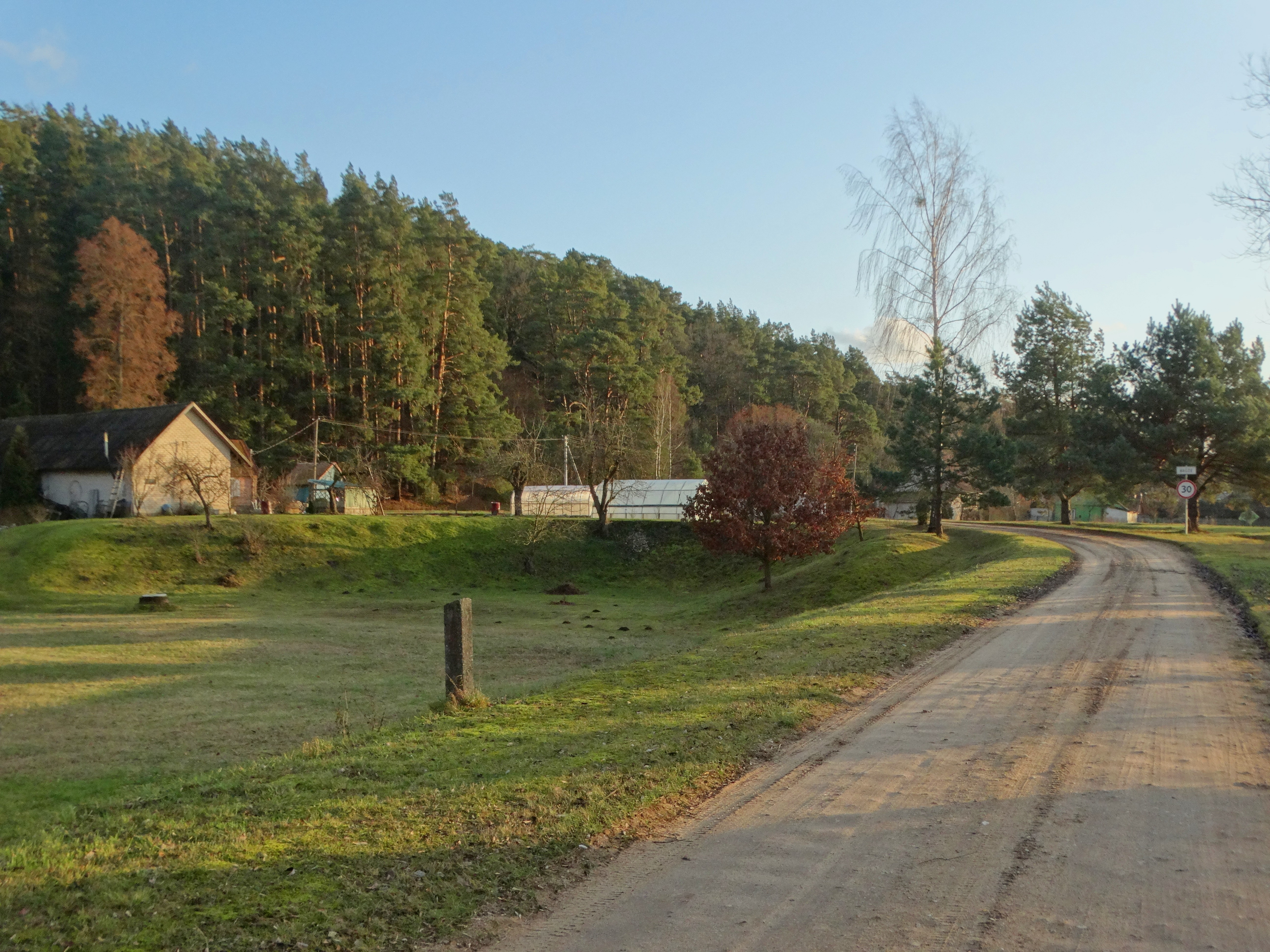 Brūžė, Kaunas District, Lithuania